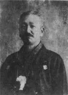 Yamazaki Susumu was a official and a Shinsengumi's spy.